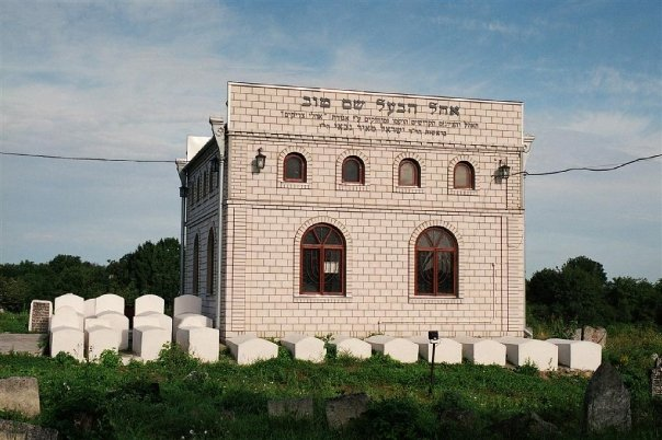 Tombe du Baal Chem Tov